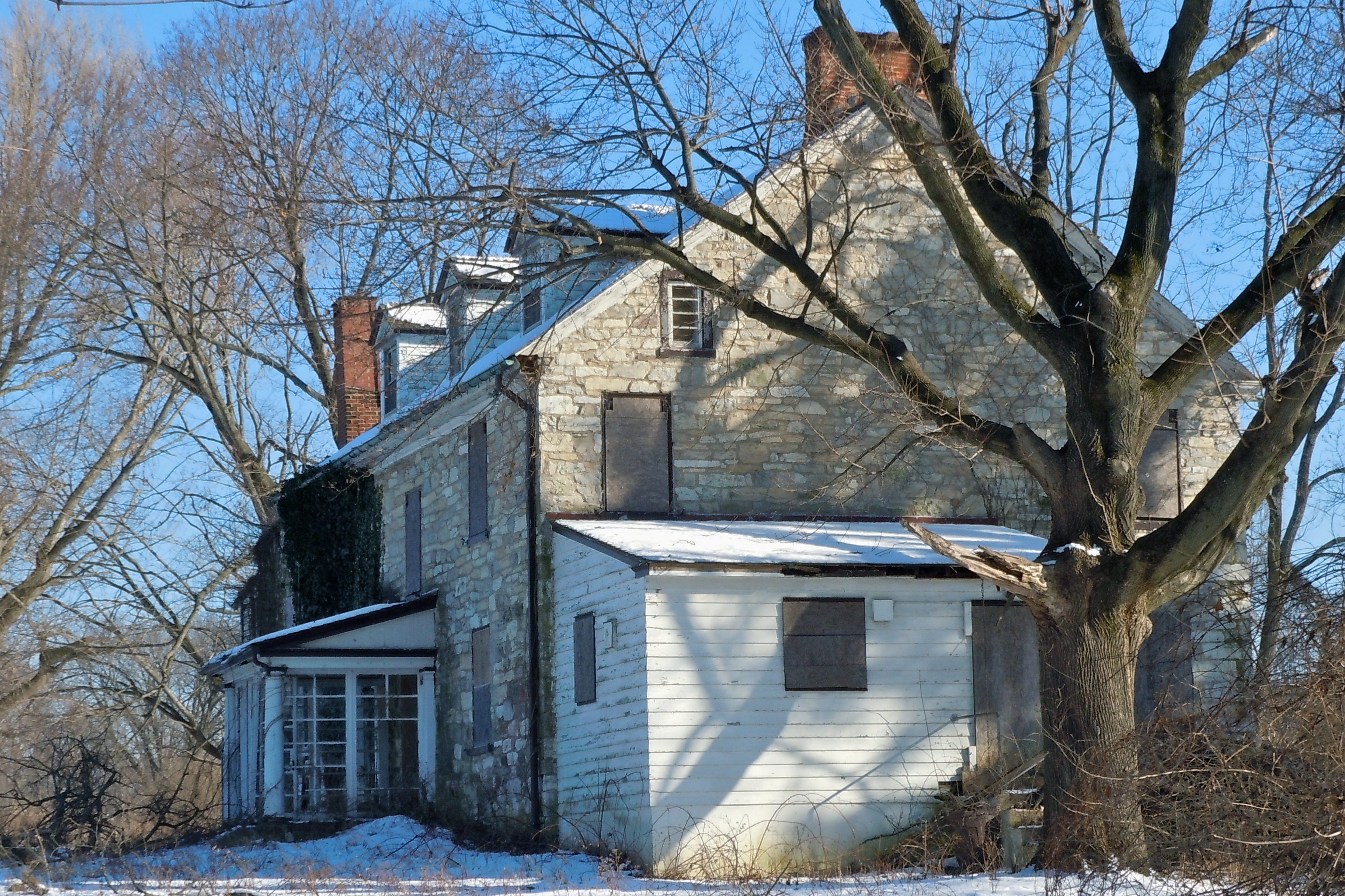 Lochiel Farm on the NRHP since September 6, 1984. At 111A North Ship Road, off in the boonies on a closed road and boarded up. In West Whiteland Township, Chester County, near Exton, Pennsylvania.